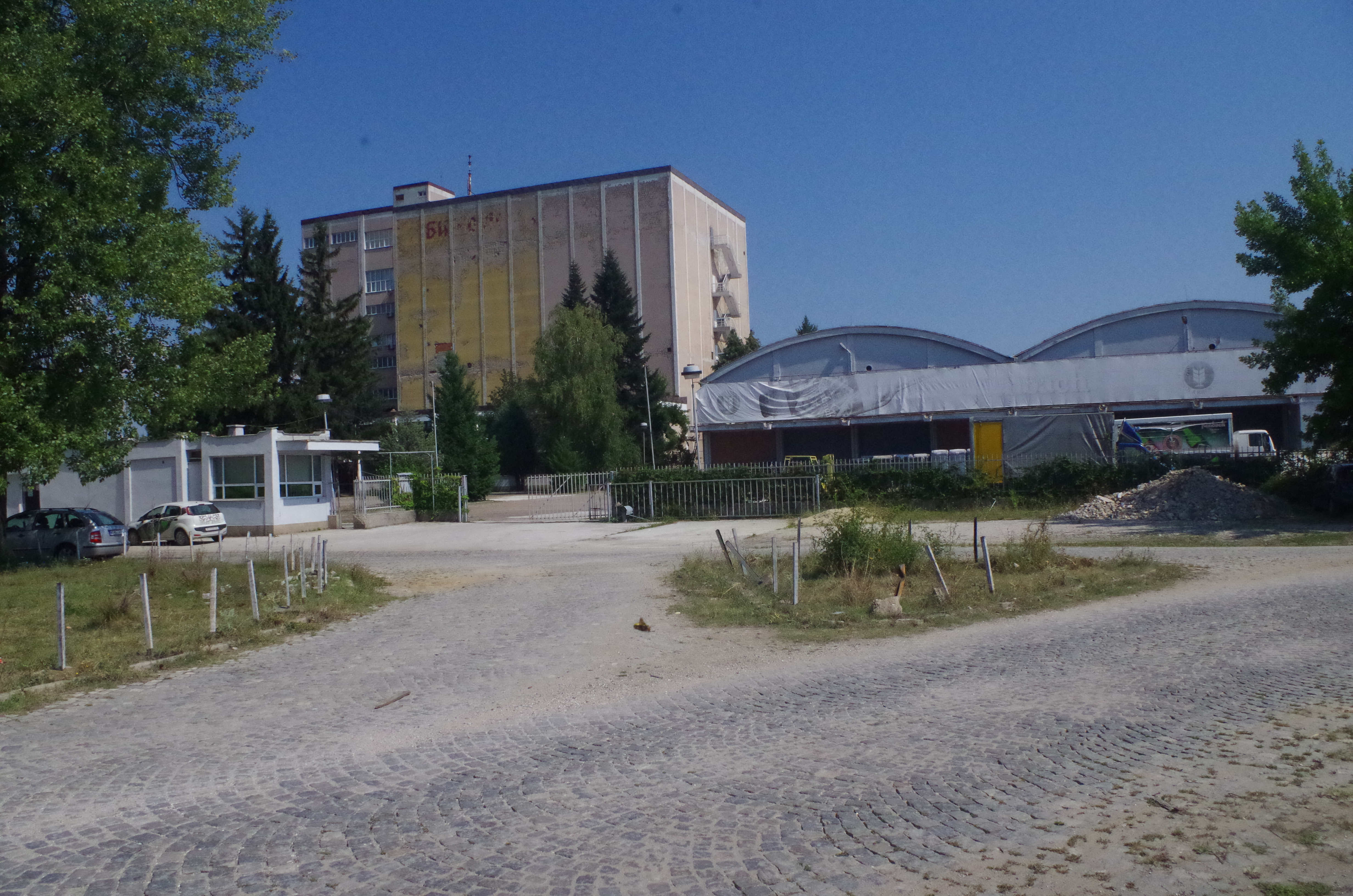 Brewery in Bitola, Macedonia